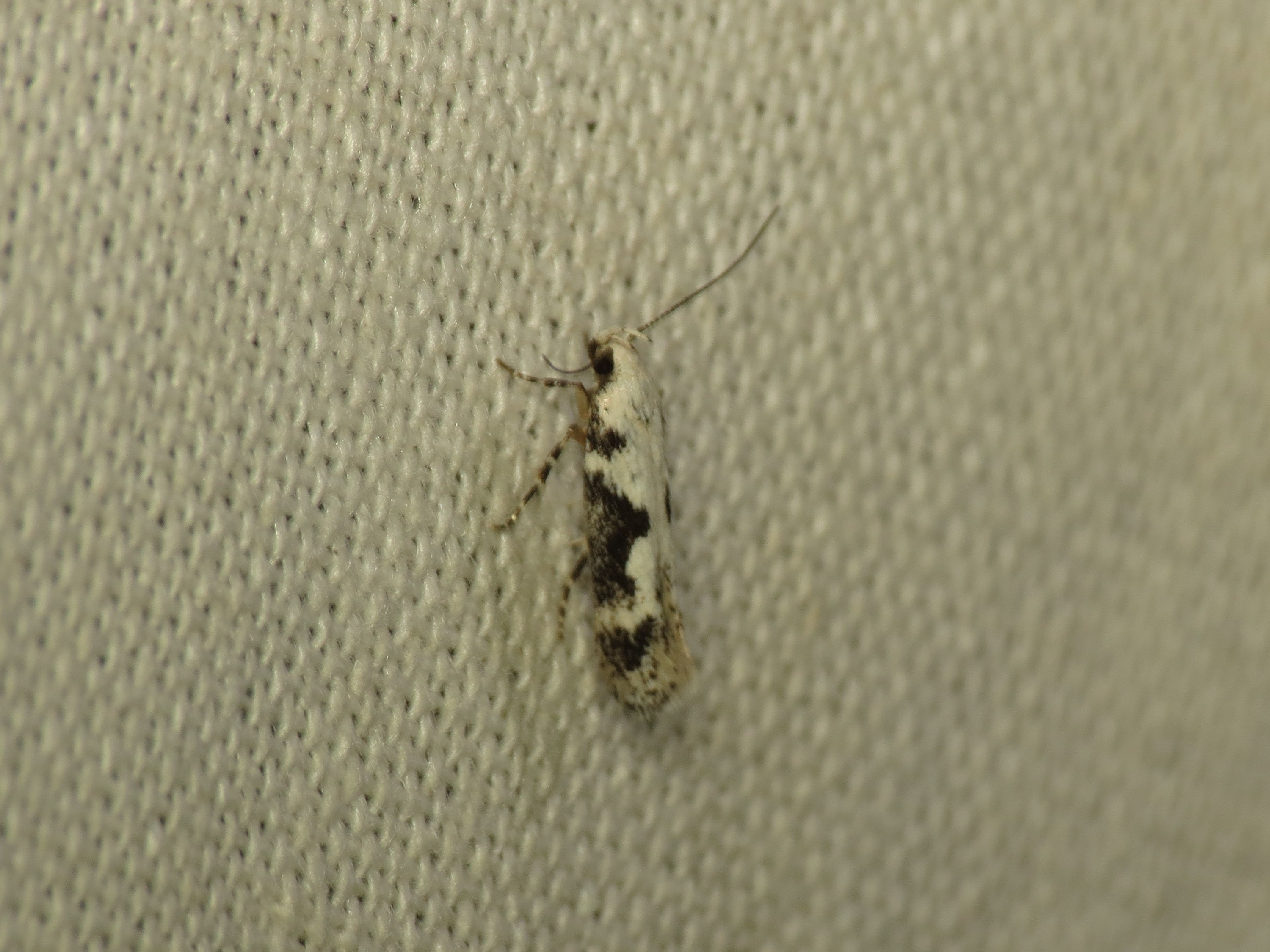 Agnippe laudatella (Walsingham, 1907), to black light, Mangini Ranch, Concord, CA, 19 June 2013